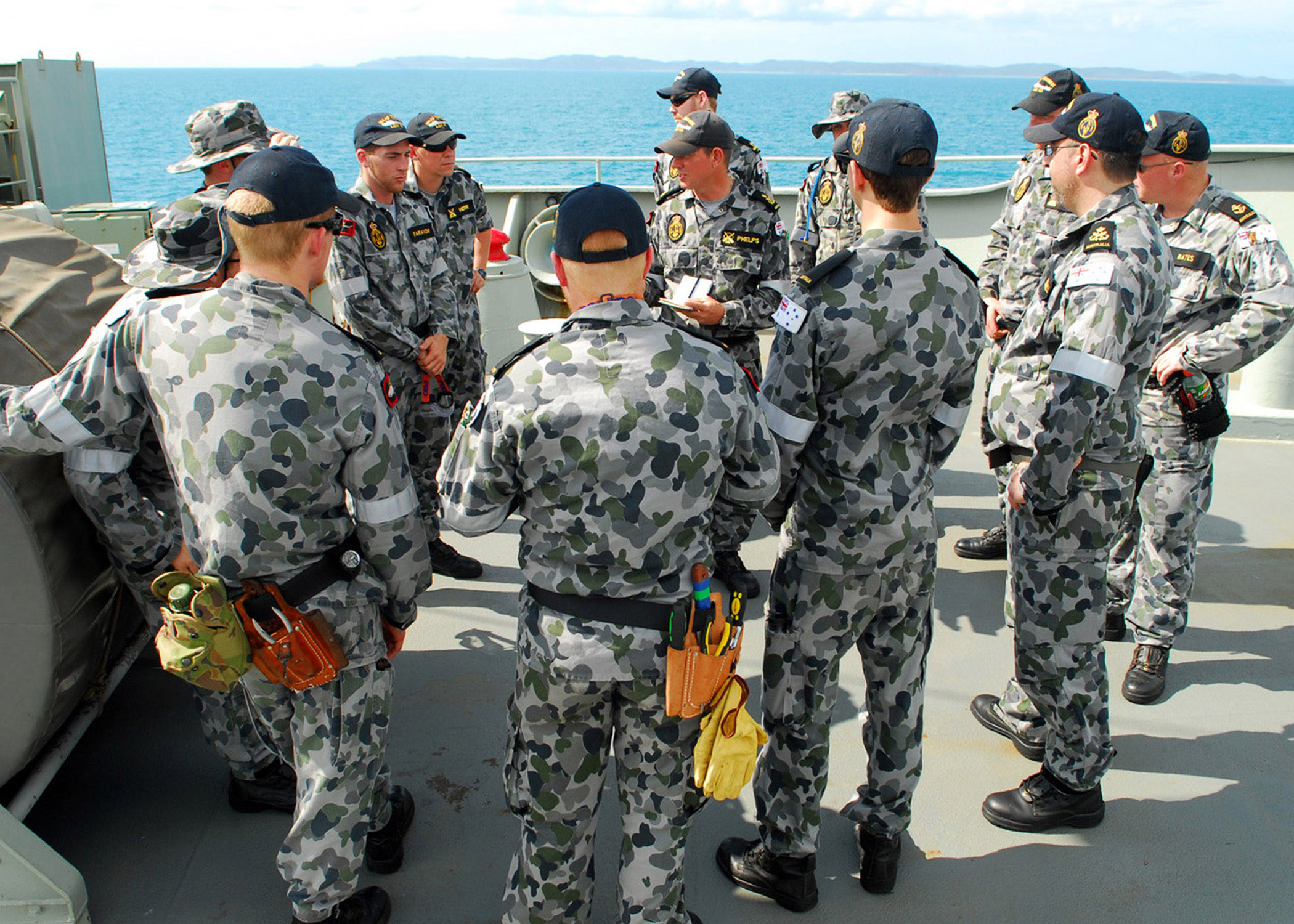 ARAFURA SEA (Aug. 29, 2010) - Royal Australian Navy Petty Officer Craig Phelps conducts a safety briefing prior to dropping anchor aboard the Royal Australian Navy ship HMAS Tobruk (L50). The Tobruk, along with a contingent of 64 Sailors and non-governmental organization members from the USNS Mercy (T-AH 19), is conducting the final leg of Pacific Partnership 2010, the fifth in a series of annual U.S. Pacific Fleet humanitarian and civic assistance endeavors aimed to strengthen regional partnerships. (U.S. Navy photo by Mass Communication Specialist 2nd Class Eddie Harrisond)